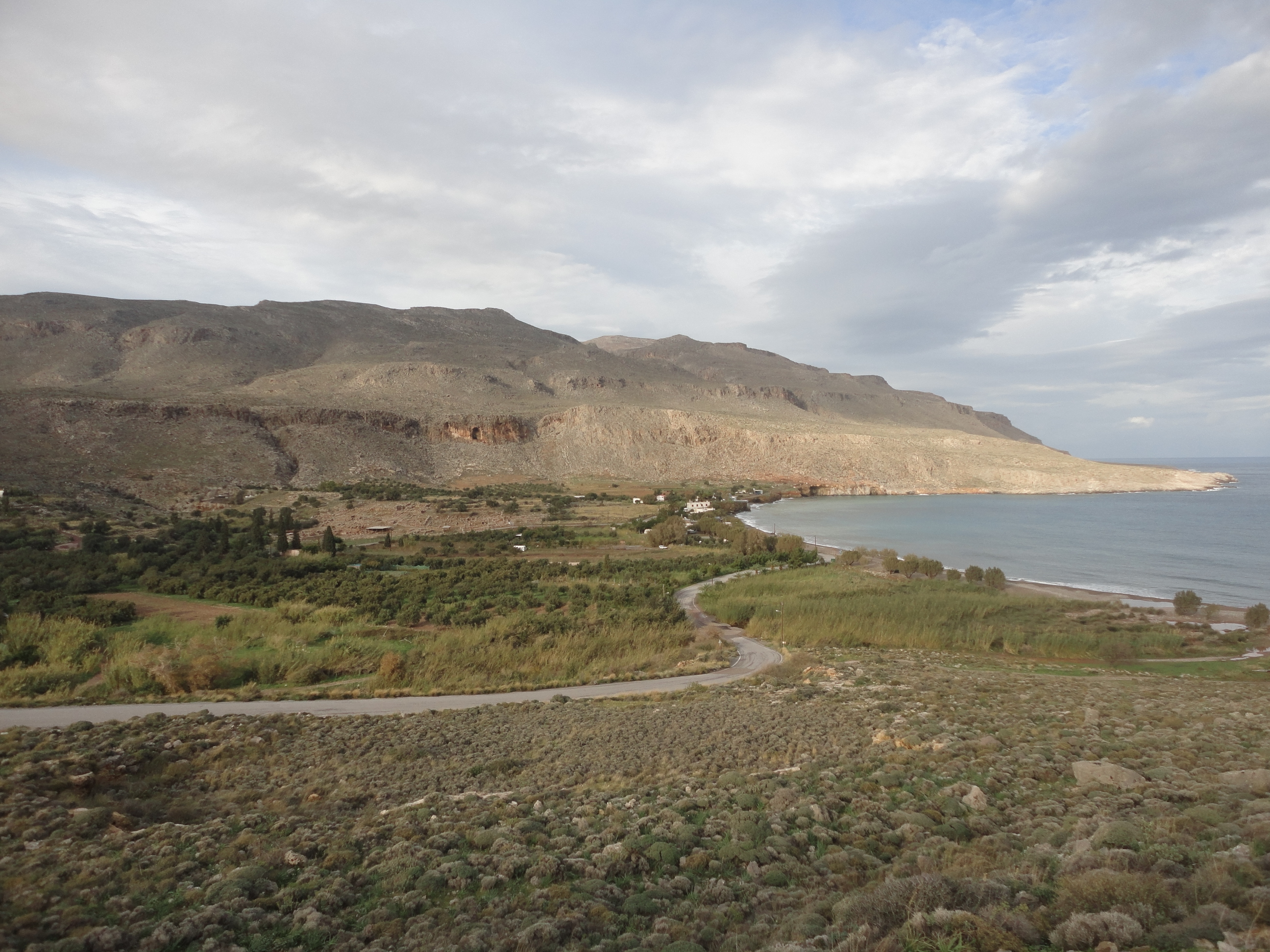 Kato Zakros